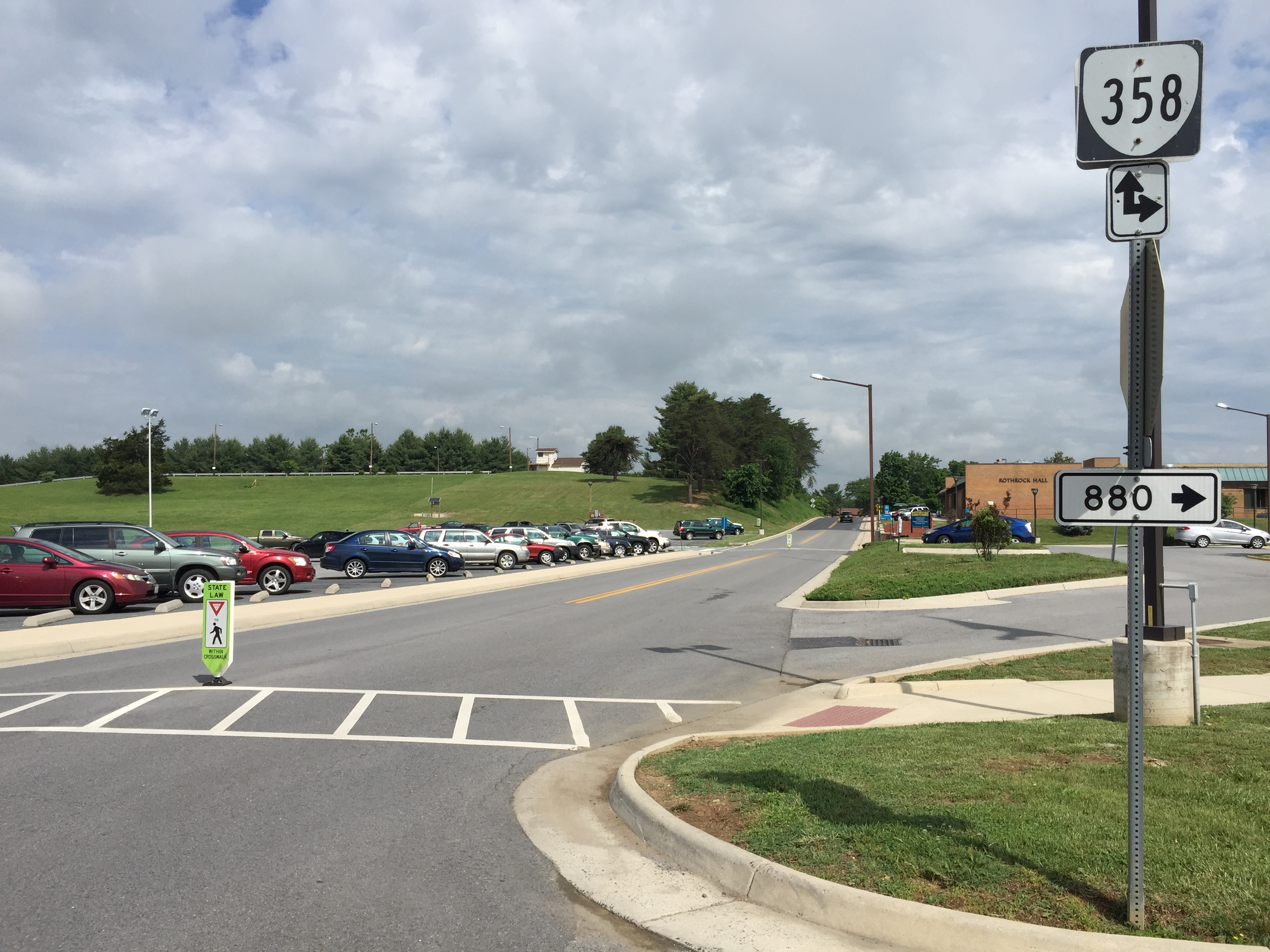 View north along Virginia State Route 358 (Woodrow Wilson Avenue) at James Anderson Road (Virginia State Secondary Route 880) in Fishersville, Augusta County, Virginia